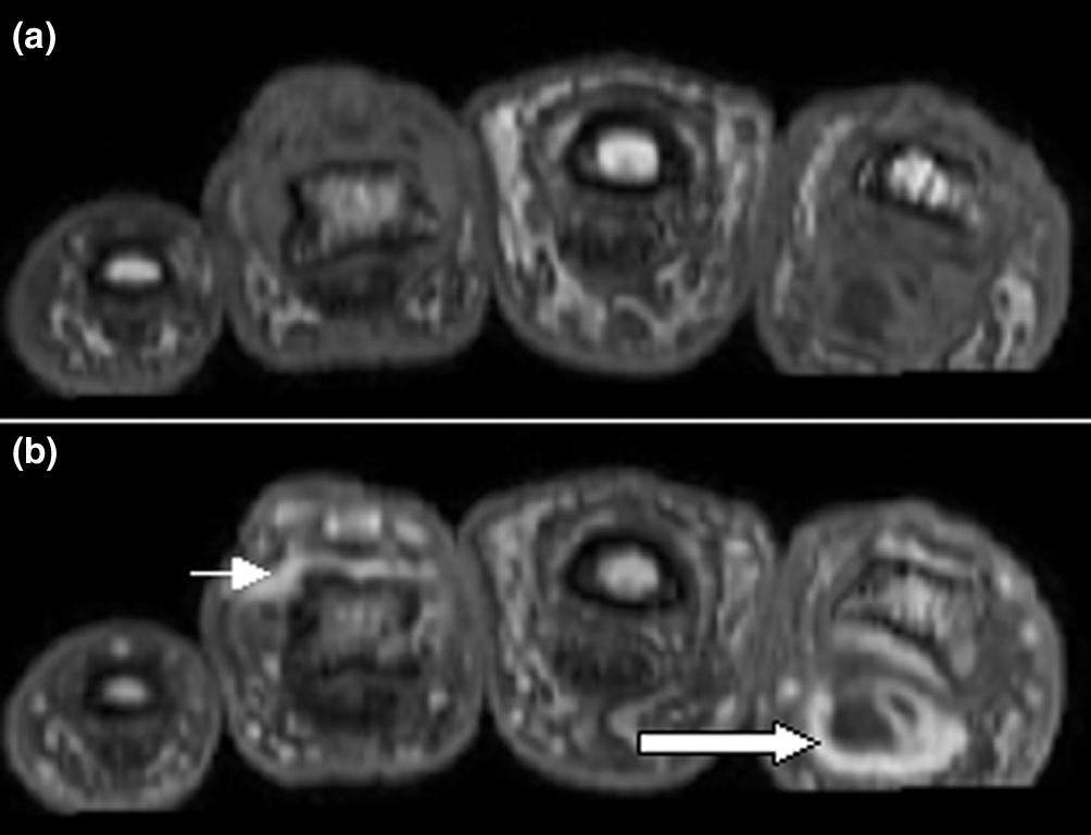 Magnetic resonance images of fingers: psoriatic arthritis with dactylitis due to flexor tenosynovitis. Shown are T1 weighted axial (a) precontrast and (b) postcontrast magnetic resonance images of the fingers from a patient with psoriatic arthritis exhibiting flexor tenosynovitis at the second finger with enhancement and thickening of the tendon sheath (large arrow). Synovitis is seen in the fourth proximal interphalangeal joint (small arrow).